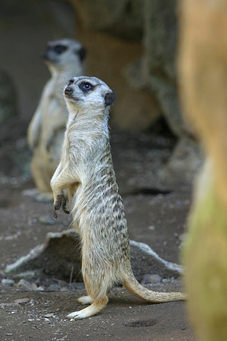 Meerkat Suricata suricatta